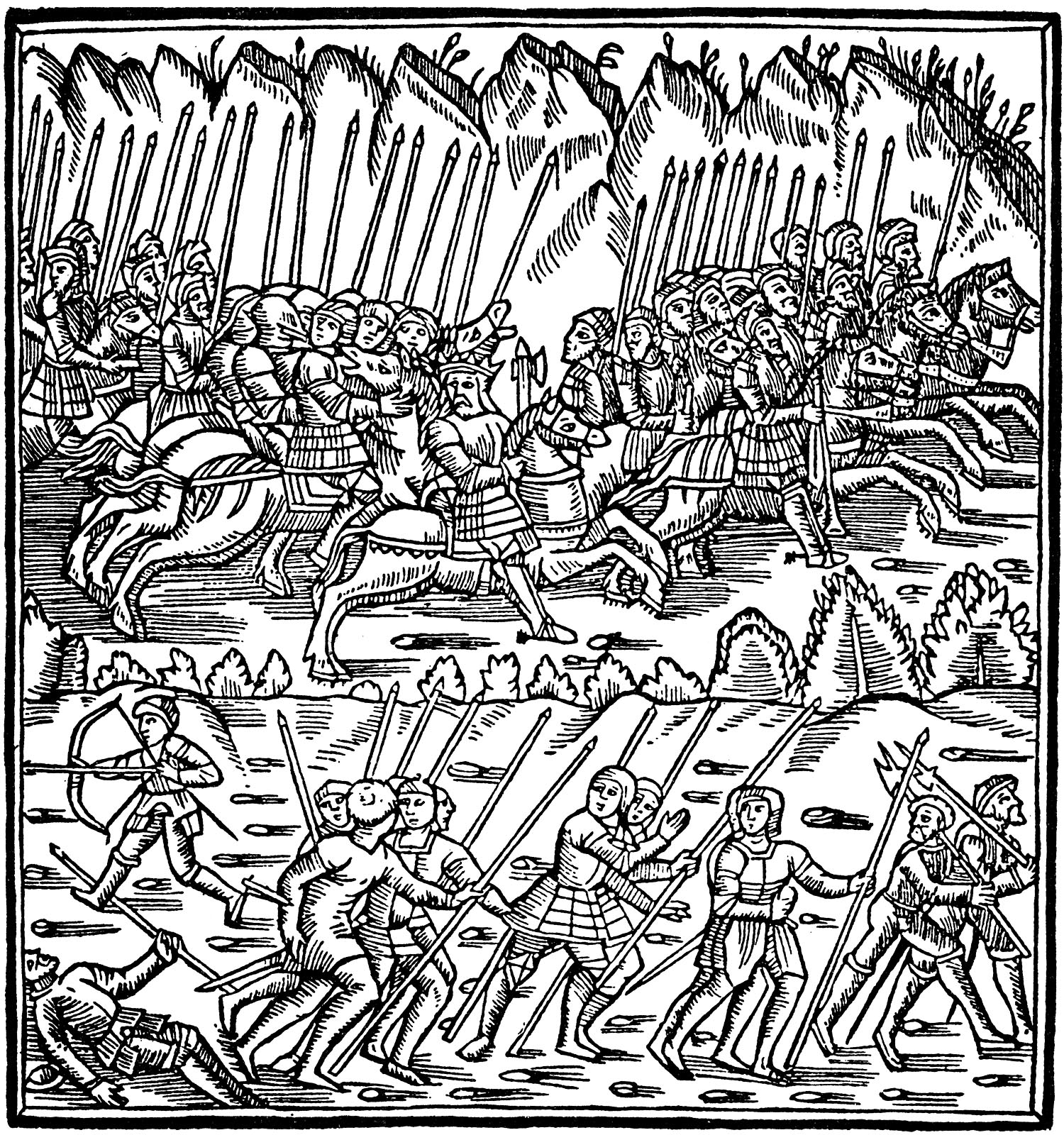 Here we see Arngrimm (with the crown) and his men which, to support the Danish king, defeated king Tengild of Finnmark and king Egbert of Bjarmaland in a hard battle.